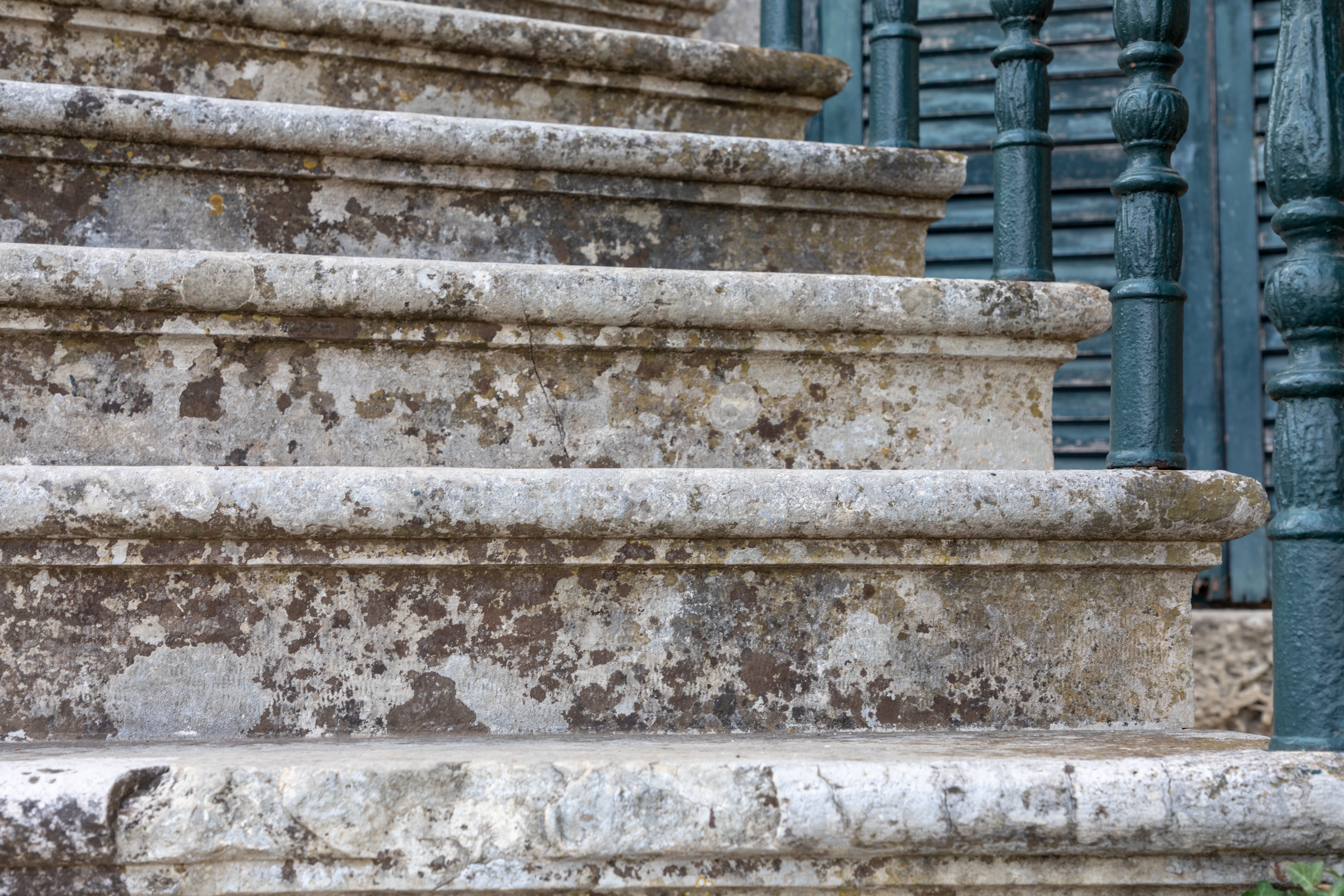 Stairs at Palace of St. Michael and St. George, Corfu, Greece